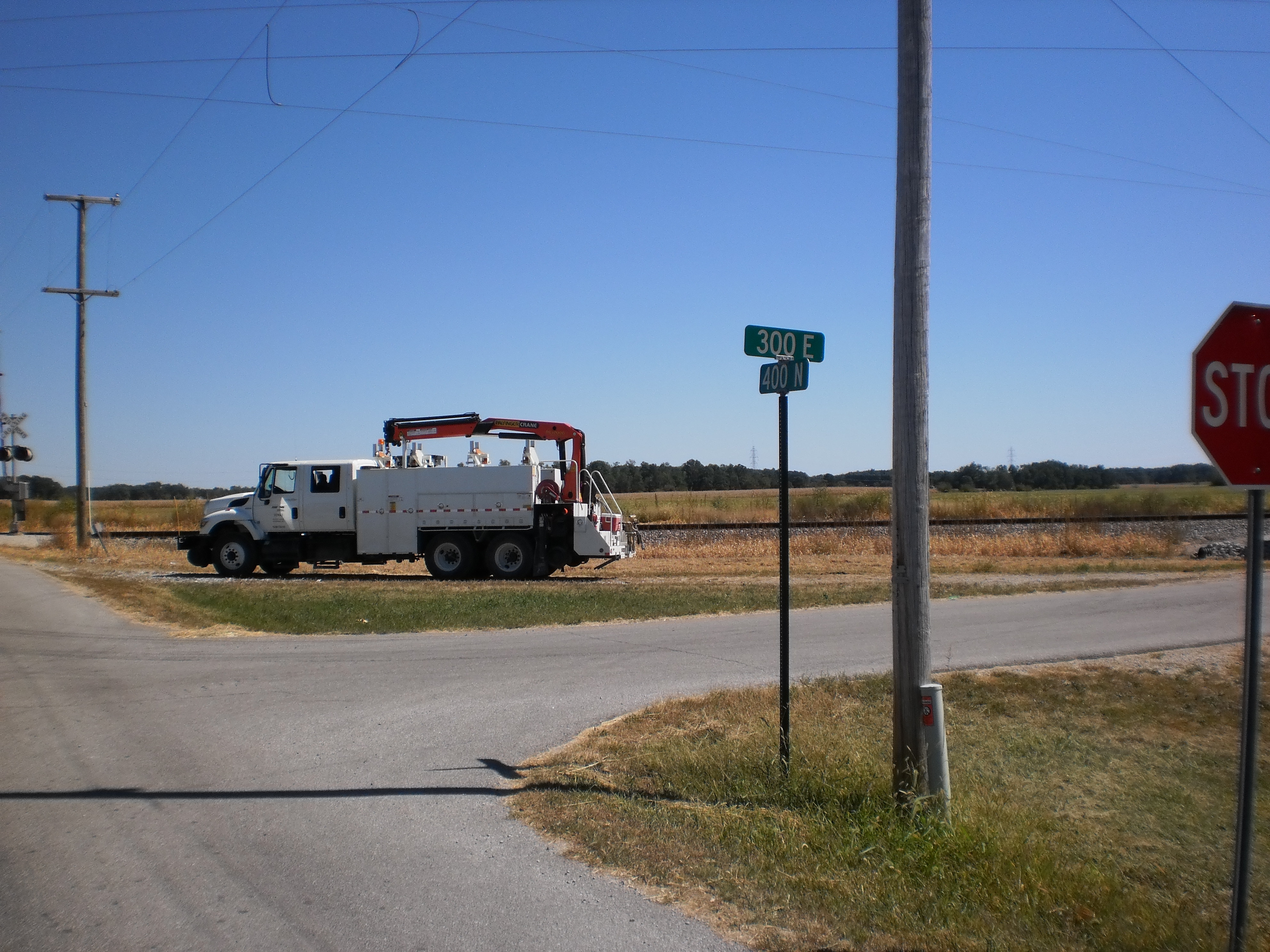 Location of the former village named Mollie. Mollie was a railroad stop in Blackford County, Indiana's Harrison Township in the USA.